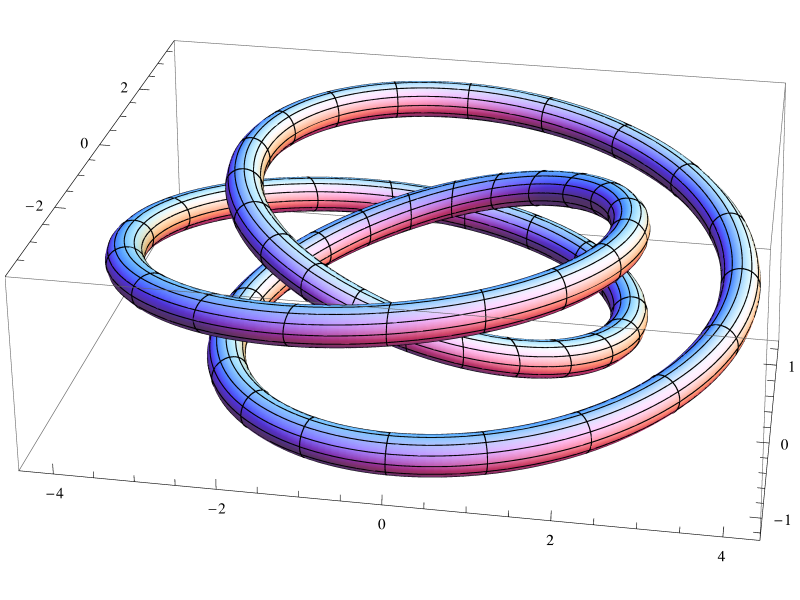 3D image of a knotted torus, made in Mathematica 6.0.1.0; a bit jagged